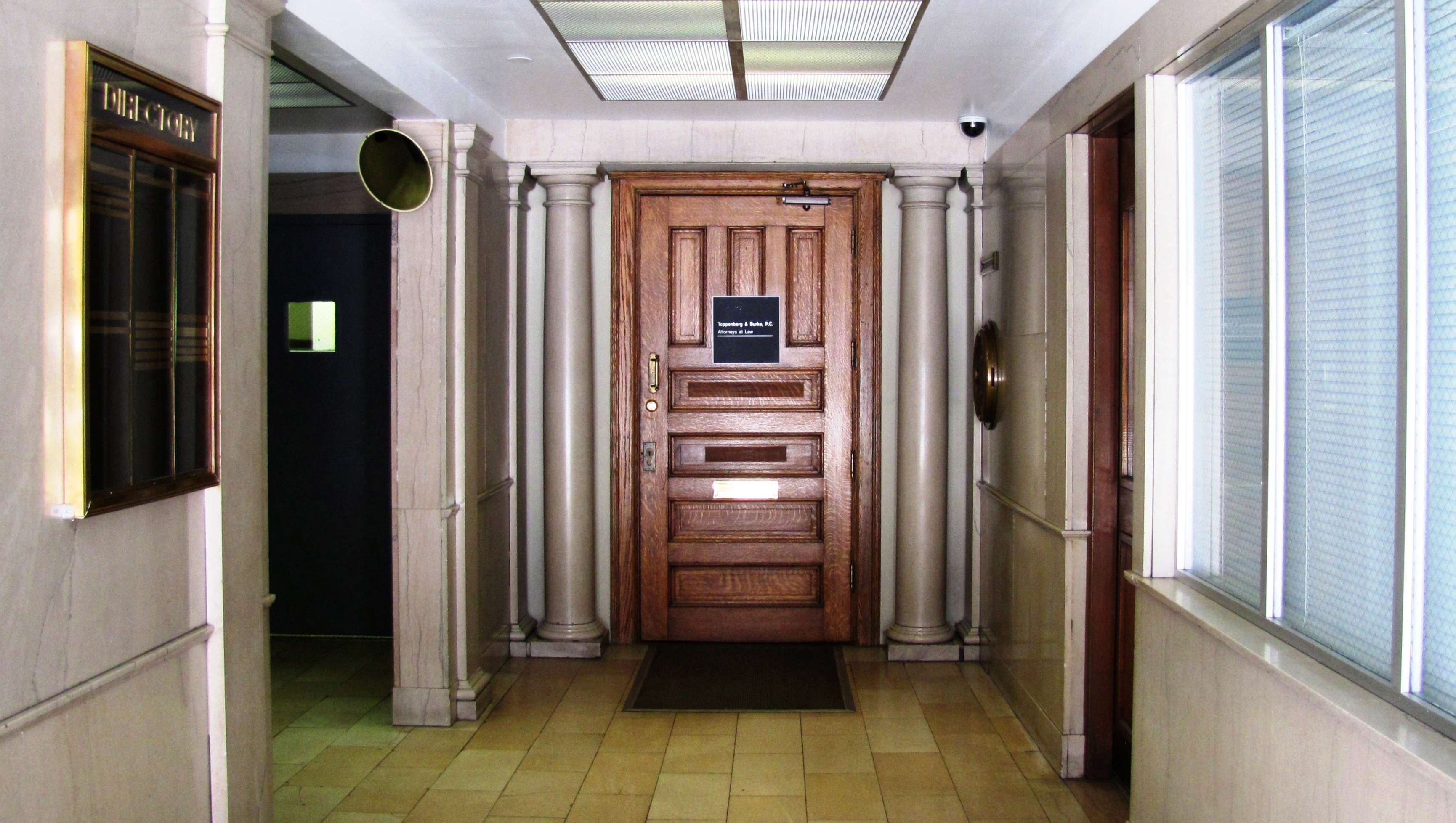 Entrance hallway of the Mechanics' Bank and Trust Company Building in Knoxville, Tennessee, USA.